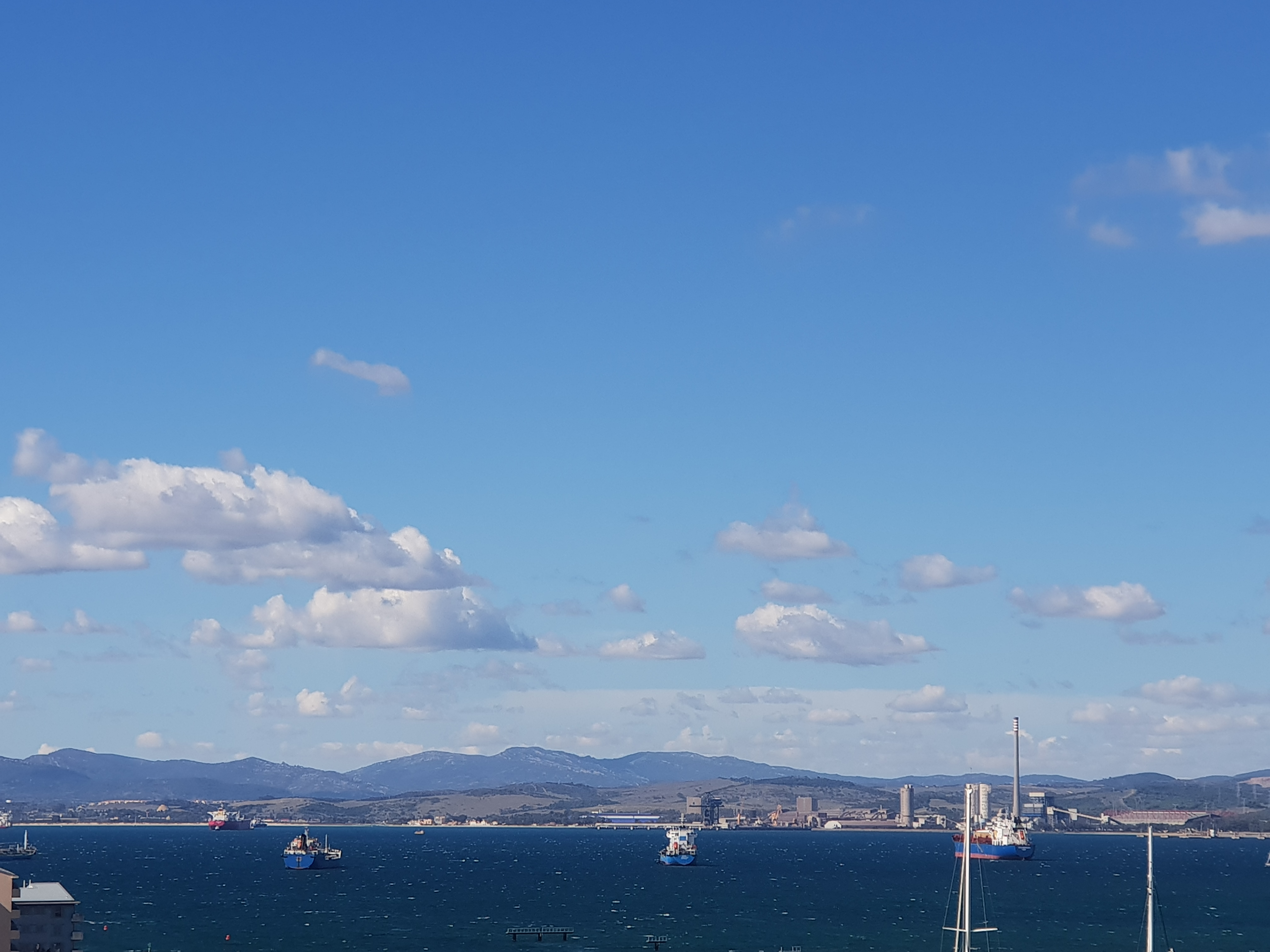 View of Spain coast taken from Gibraltar.